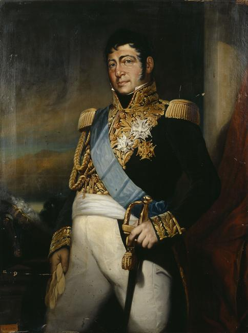 Painting entitled "Etienne Tardif de Pommeroux, comte de Bordessoule, lieutenant général". A portrait of general Bordessoule.